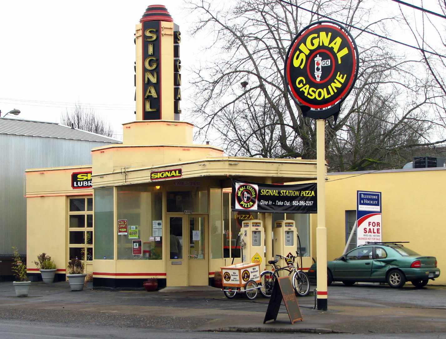 The historic St. Johns Signal Tower Gas Station (built 1939), located in the St. Johns neighborhood of Portland, Oregon, United States, is listed on the US National Register of Historic Places. It is today used as a pizza restaurant.